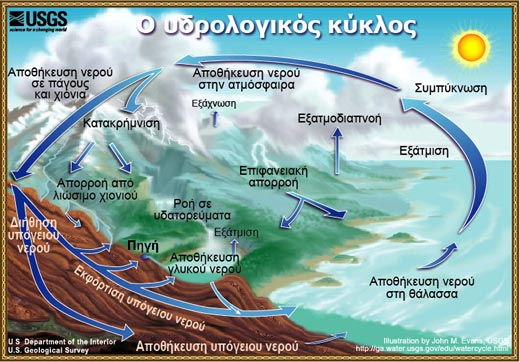 Water-Cycle Diagram (Greek)